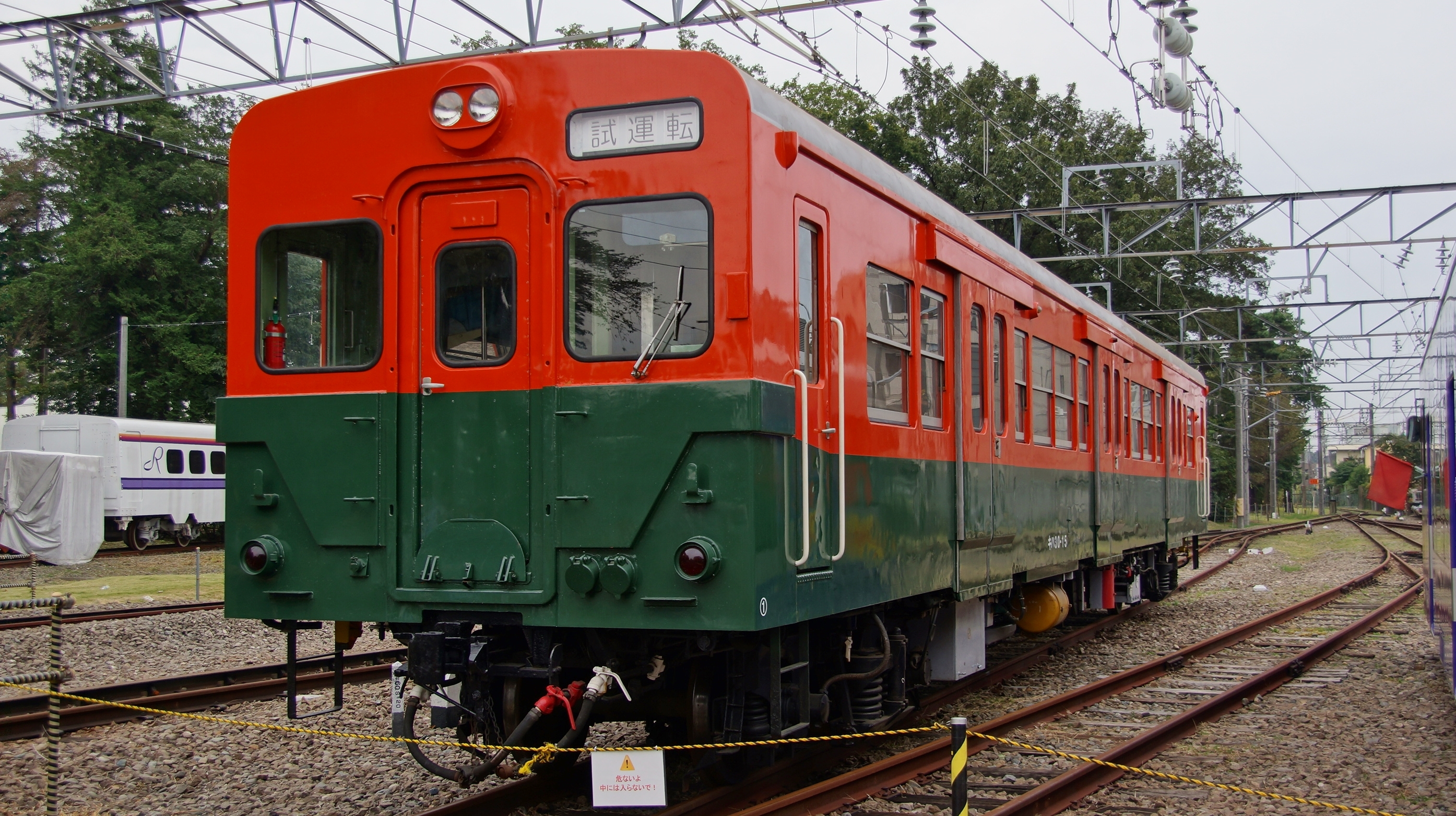 Former JNR KiHa 30 DMU car KiHa 30-15 used as an experimental test bed at the RTRI facility in Kokubunji, Tokyo, Japan